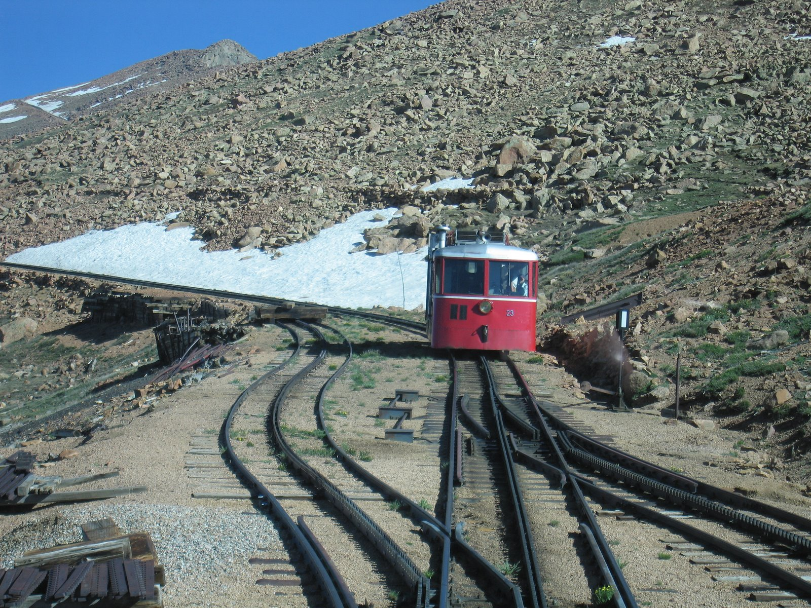 Manitou and Pike's Peak Railway #23